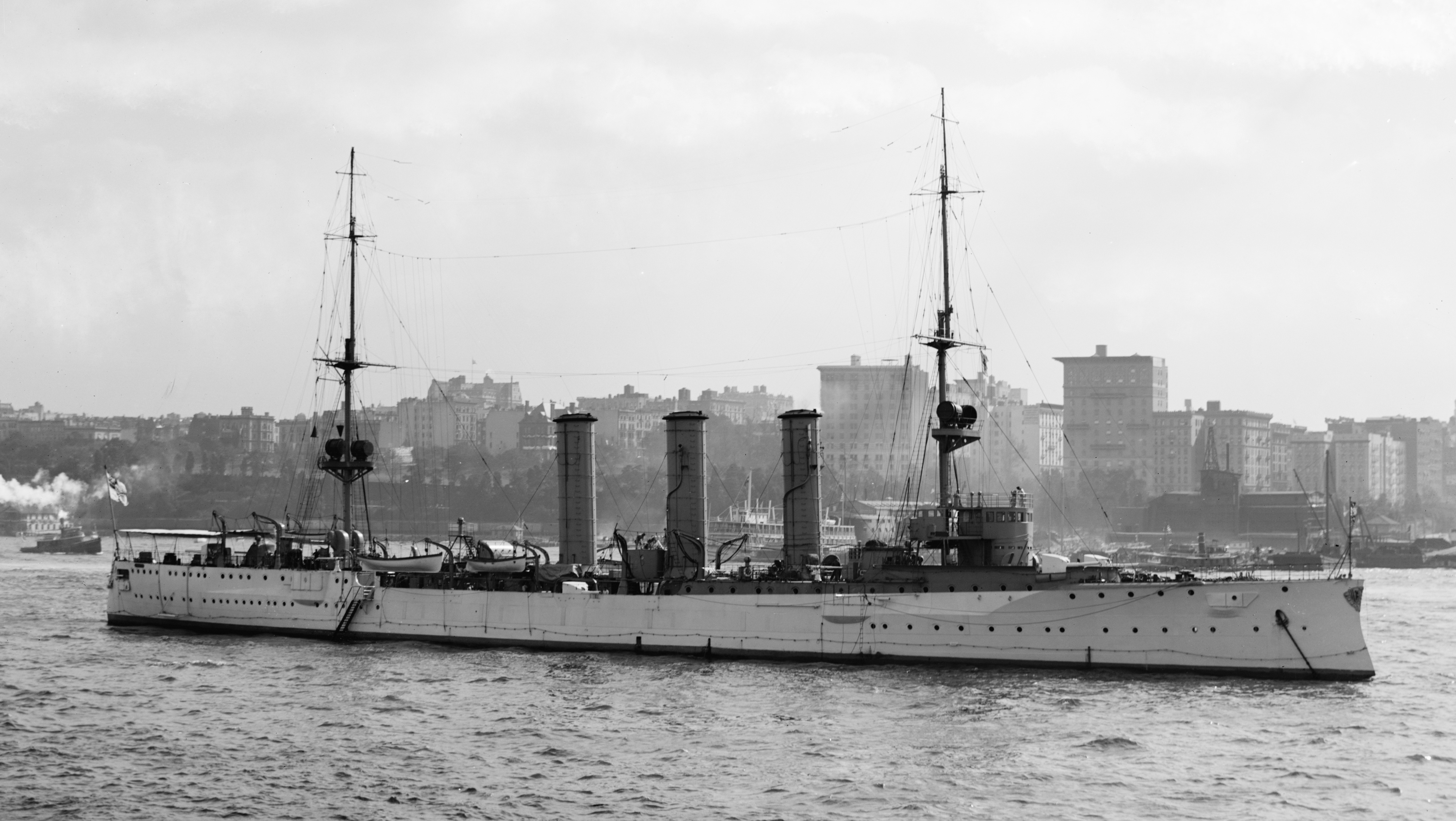 German cruiser SMS Dresden in New York City